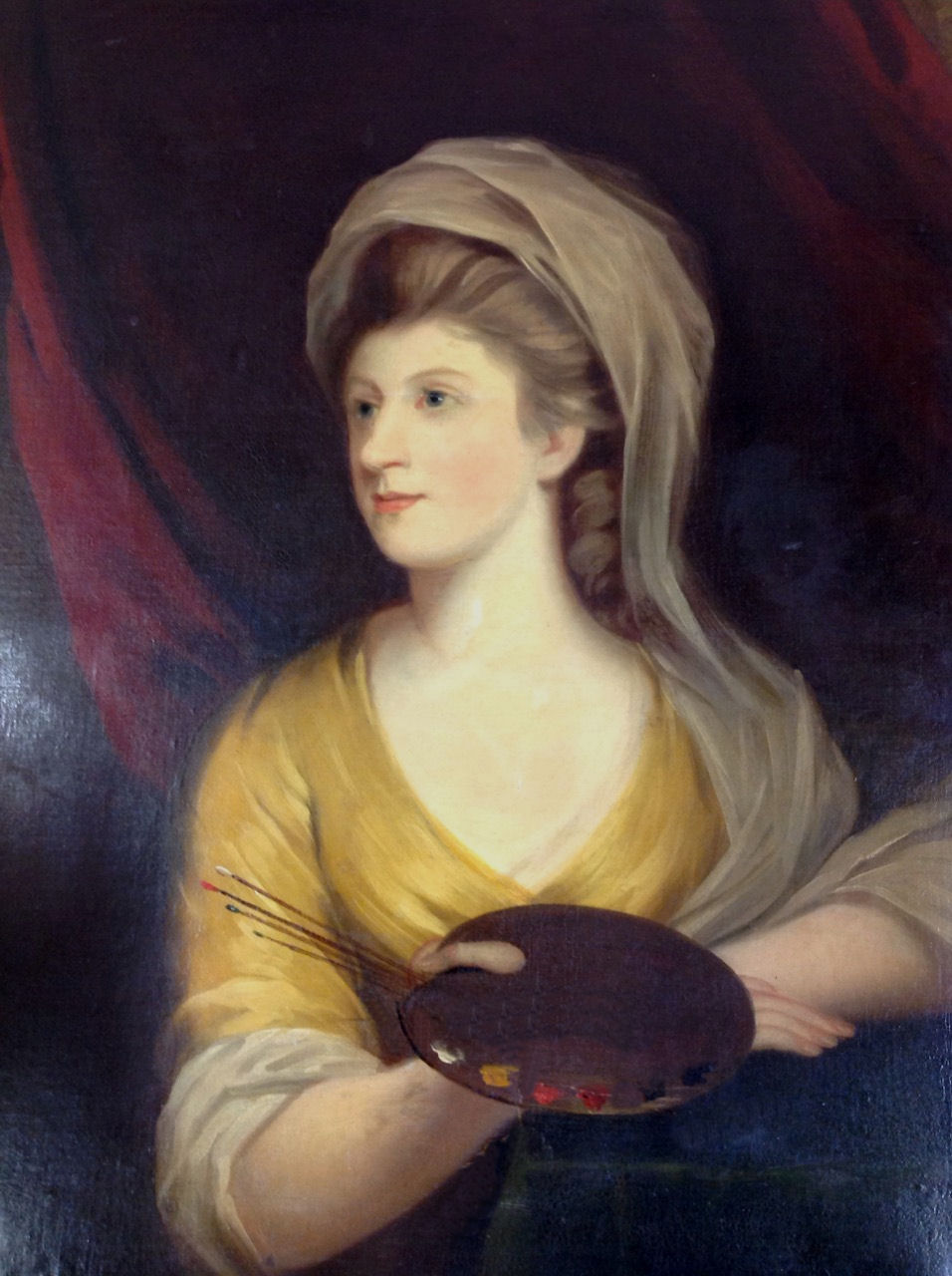 Diana Noel, 2nd Baroness Barham (1763-1823)